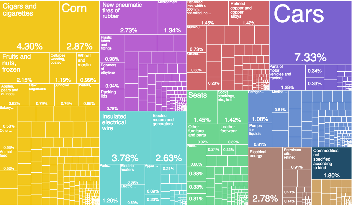 Serbia Export Treemap from MIT Harvard Economic Complexity Observatory